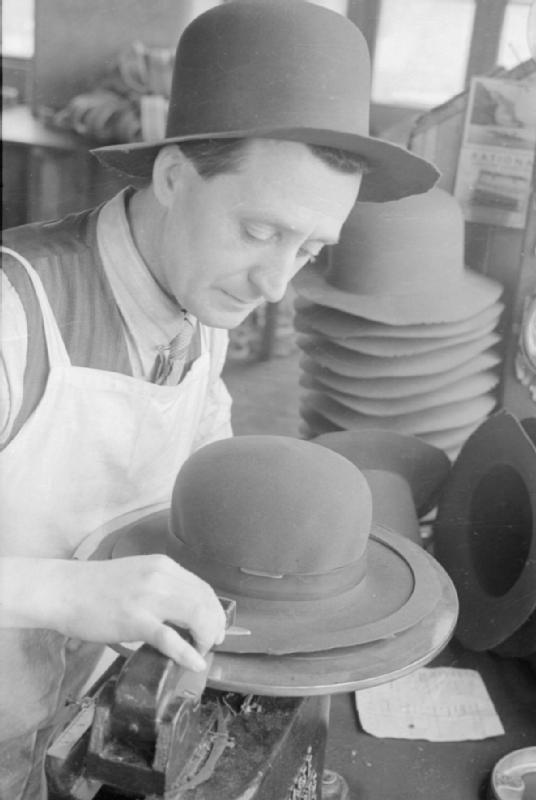 Rabbit Goes To Your Head- Hat Manufacture in Britain, 1940 With the next hat to be worked on waiting on his head, this hat maker is rounding, or cutting, the rim of this hat to size. A pile of hats also awaiting attention can be seen just behind him.